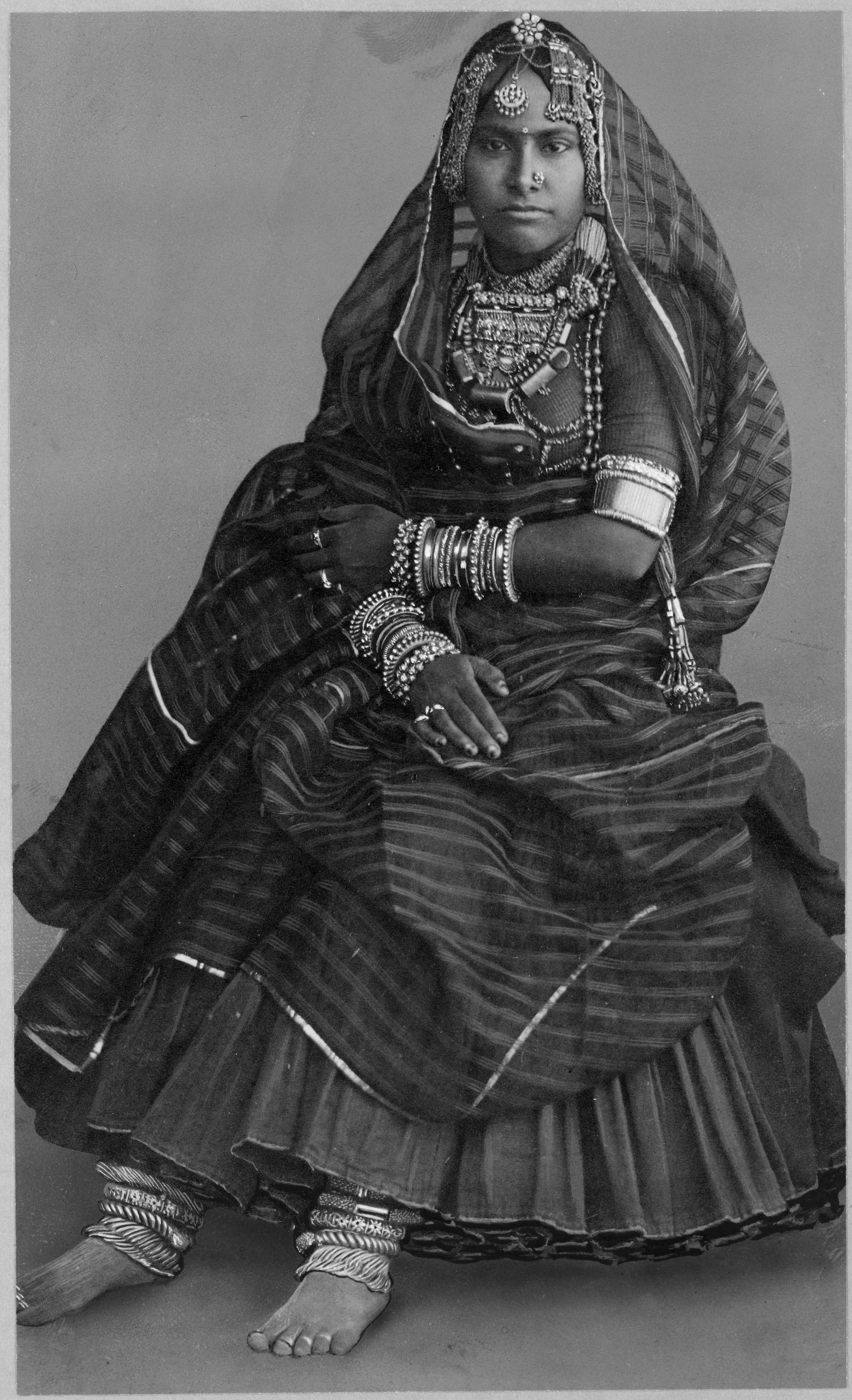 Title: Woman wearing court dress and Indian jewelry Abstract: Photo shows a young noble woman, seated, facing front, wearing a dress with head covering, also arm, wrist, and ankle bands, finger and toe rings, nose piercing, and a large necklace. Physical description: 1 photographic print. Notes: Title from caption card and item.; Forms part of: Frank and Frances Carpenter Collection (Library of Congress).; No. 304.; LOT subdivision subject: India.